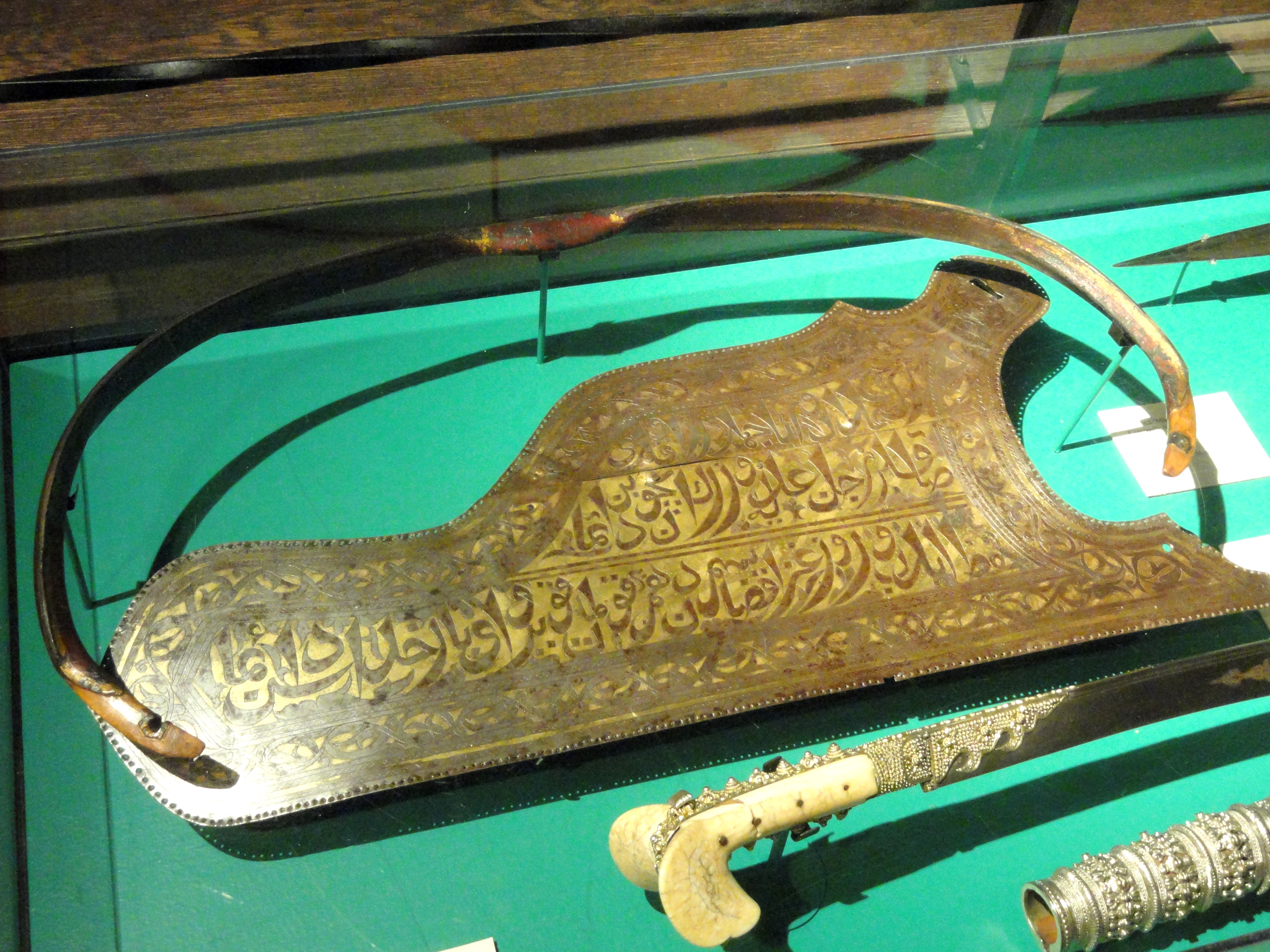 Exhibit in the Higgins Armory Museum, 100 Barber Avenue, Worcester, Massachusetts, USA. The museum permitted photography without any restriction, both in writing and when I asked verbally.